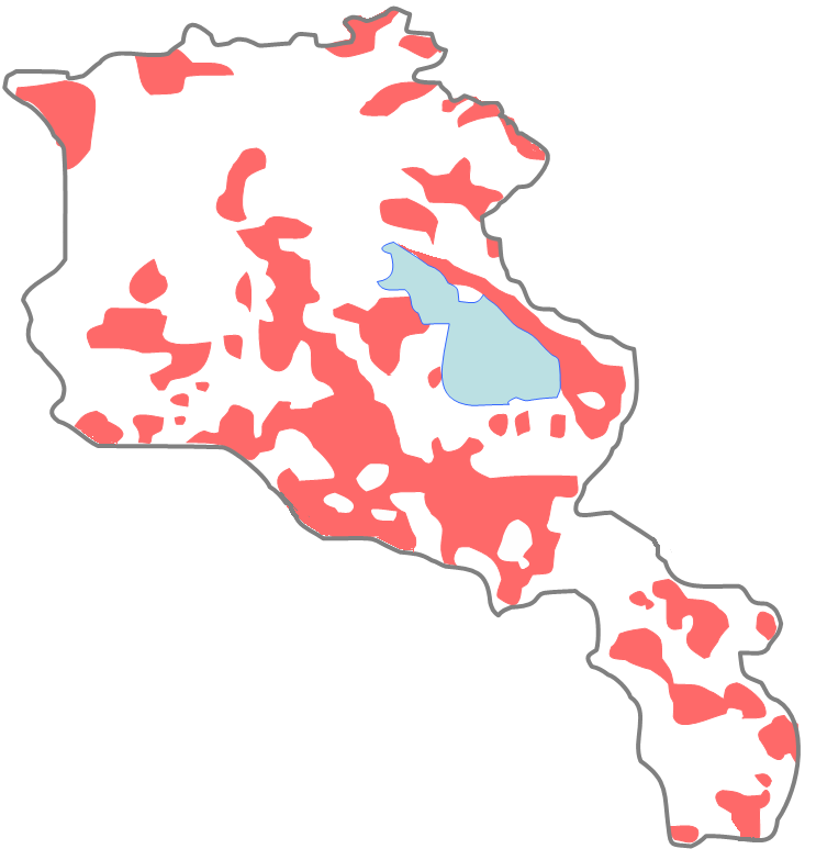 Distribution of Azerbaijanis (Azerbaijani Tatars) in borders of modern Armenian Republic in 1886-1890